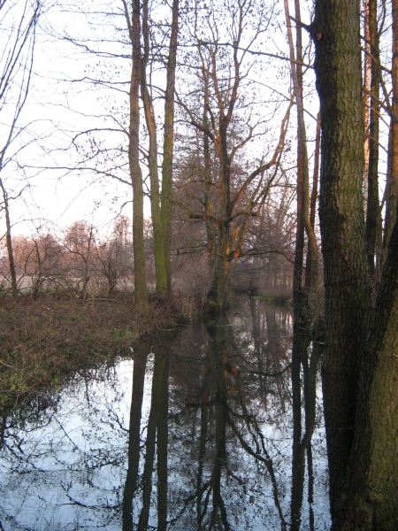 the River "Dahme" in Brandenburg (Germany), near Rietzneuendorf